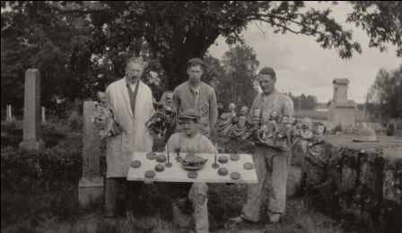 The painter Alfred Hagn (1882-1958)